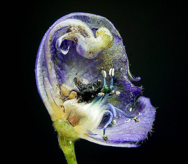 Aconitum napellus dissected flower